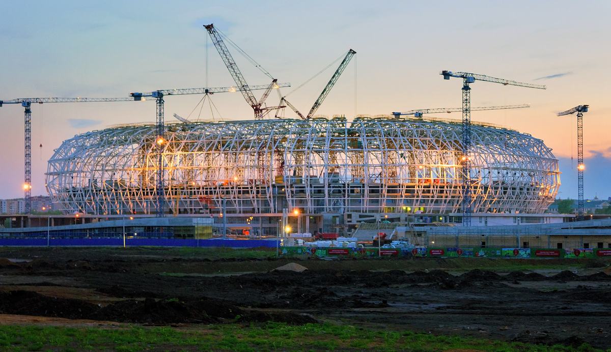 Stadium in Saransk for the World Cup 2018.